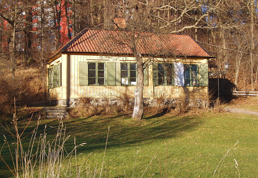 'Larsbergs brostuga', Larsberg, Lidingö, Sweden. A cottage built by Lars Fresk when the first bridge was built between Lidingö/Larsberg and Stockholm (1802-1803).